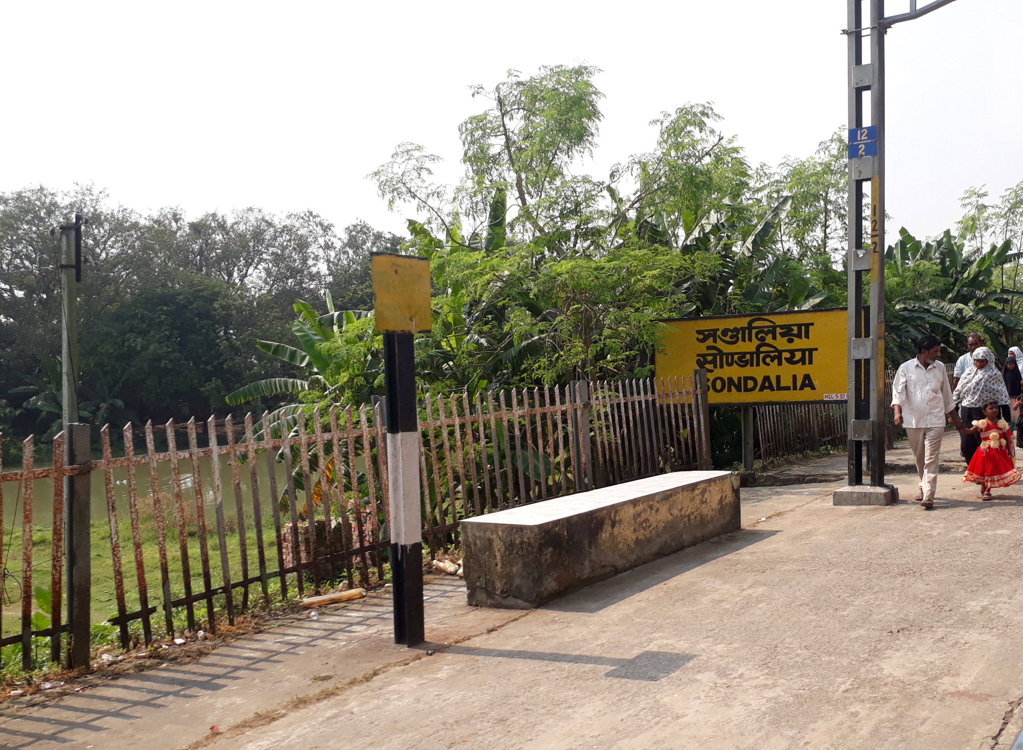 Sandalia railway station in Barasat Basirhat line. West Bengal